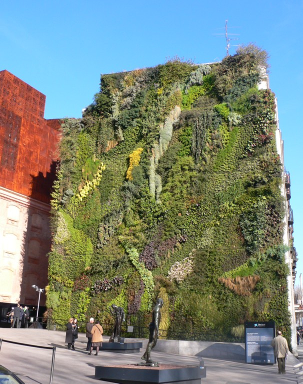 Wall of living plants near Atocha station Madrid